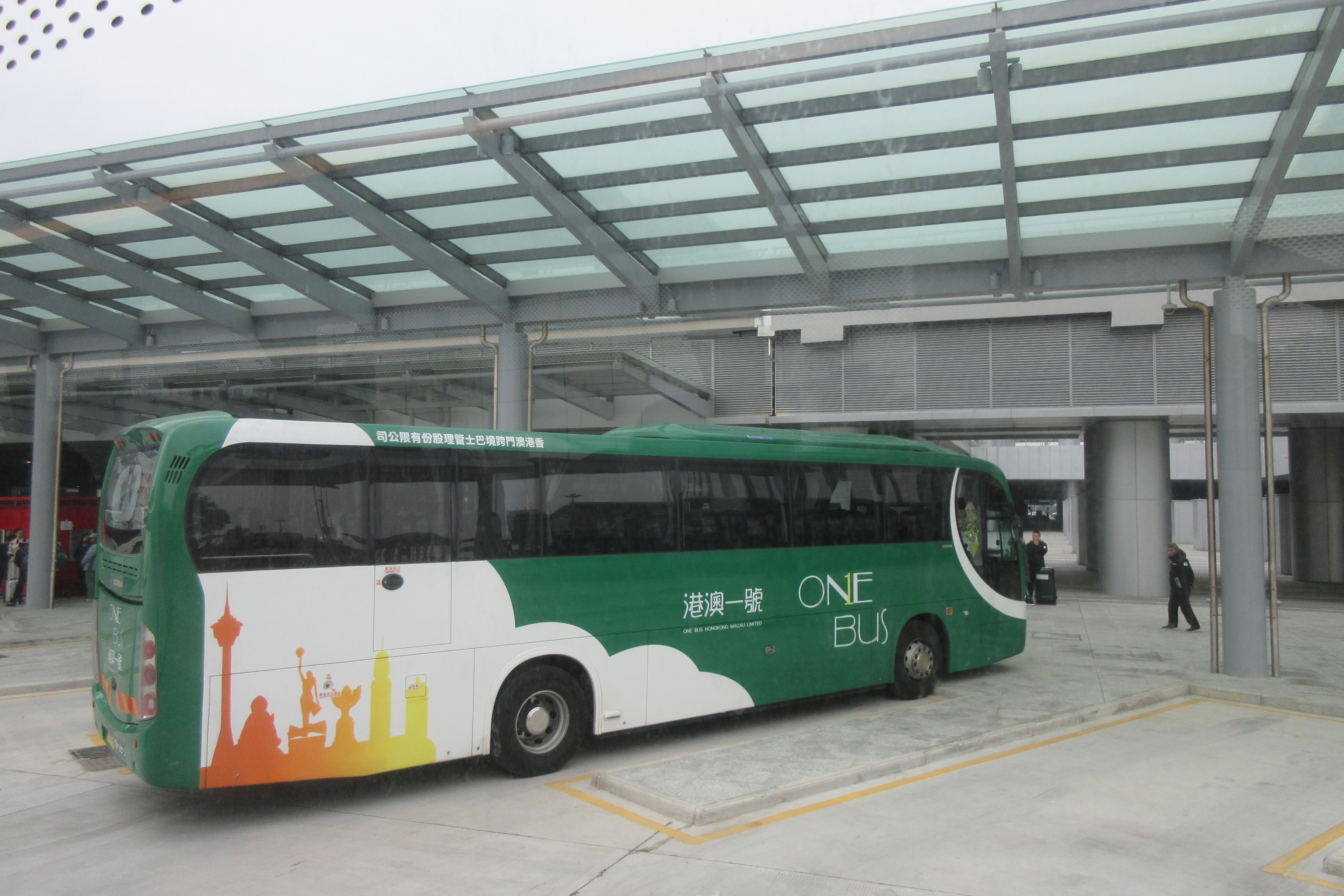 MC 澳門 Macau 港珠澳大橋 HK-Zhu-Macau Bridge port building in January 2019